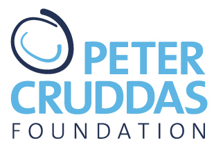 Peter Cruddas Foundation logo- no strapline